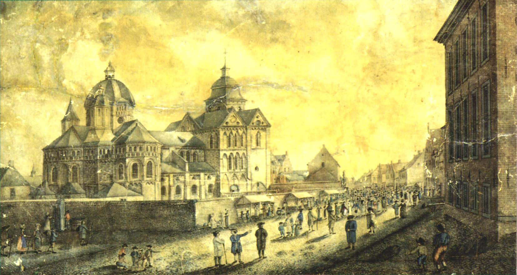 Anonymous. Munsterabdij, Roermond.